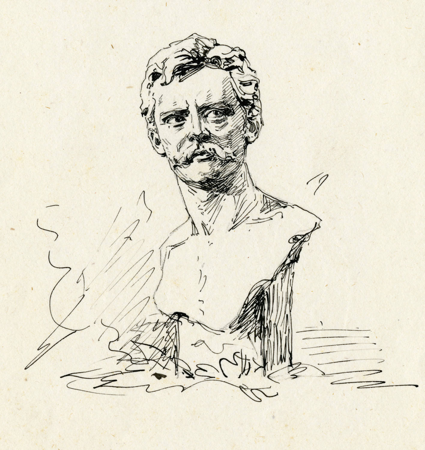 Encke was a portrait painter who was commissioned to paint John Pierpont Morgan and Theodore Roosevelt, among others. Moses Jacob Ezekiel was his intimate companion for 45 years.